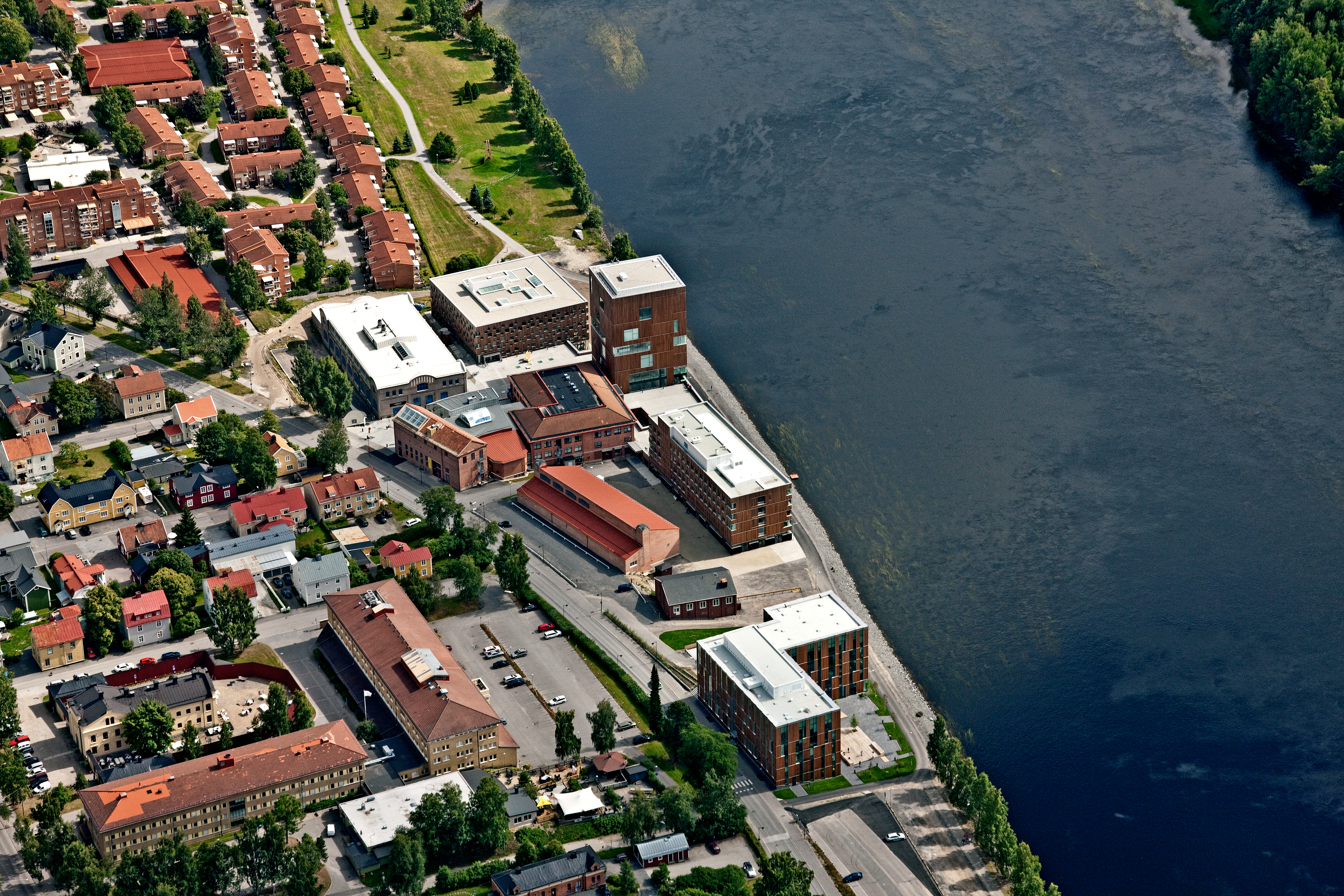 Aerial view of Umeå Arts Campus